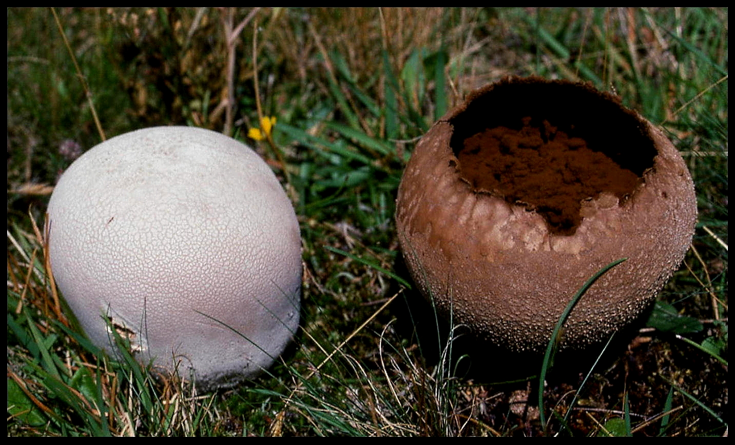 Lycoperdon utriforme — a Puffball mushroom. Credits This image is the work of photographer Zonda Grattus, aka User:luridiformis. He is the sole owner and copyright holder of this photograph, and holds the original 35mm slide. He agrees to publish it under the Own Work, Creative Commons Attribution 3.0 License.